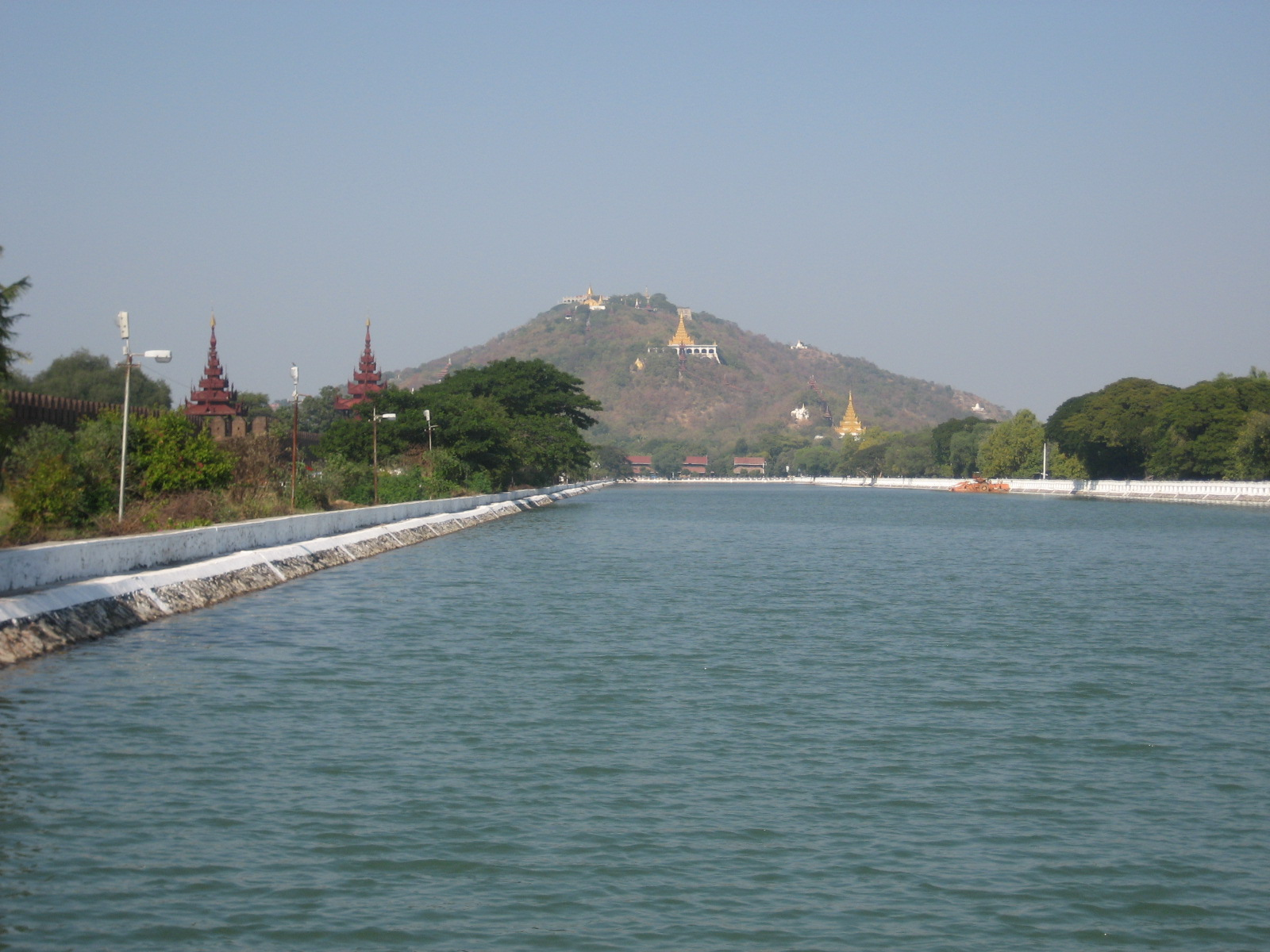 Mandalay Hill from the east moat bridge; three of the Thudhama Zayats in the foreground.